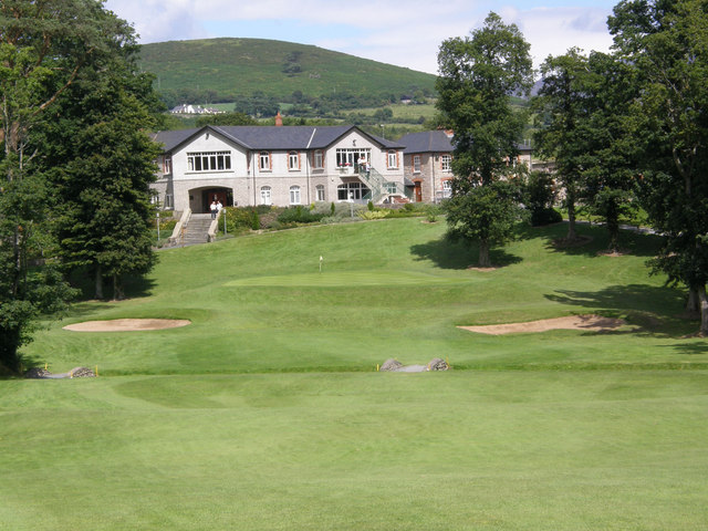 18th Fairway at Kilkeel Golf Course Approaching the 18th green at Kilkeel Golf Course with Clubhouse in background.